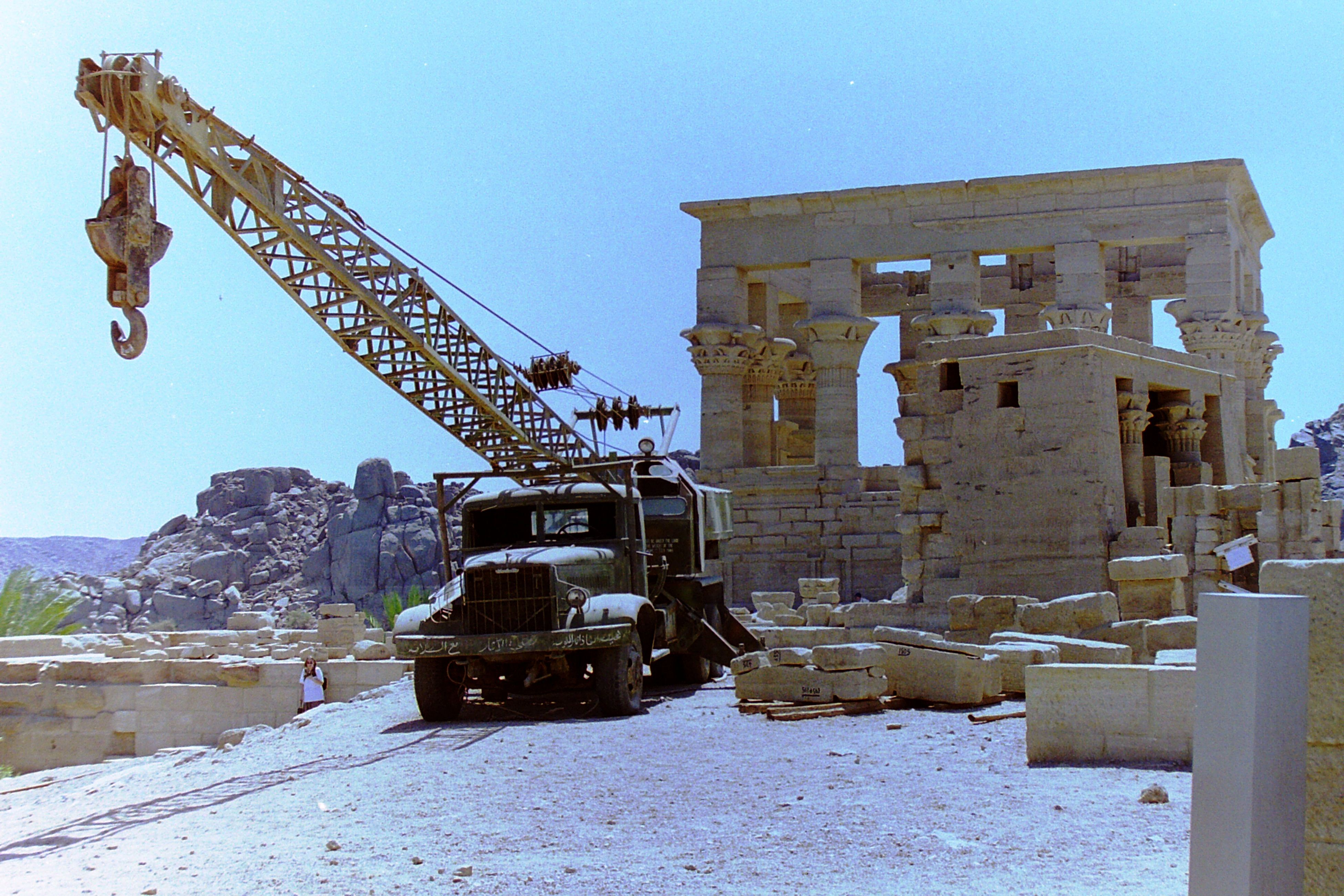 Rusty Russian KRaZ crane truck at Temple of Hathor in Philae. Photo taken 1995 with a Minox 35 PL.